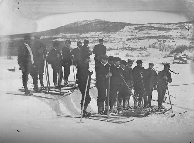 Skiers from Skiklubben Ull in Oslo, Norway